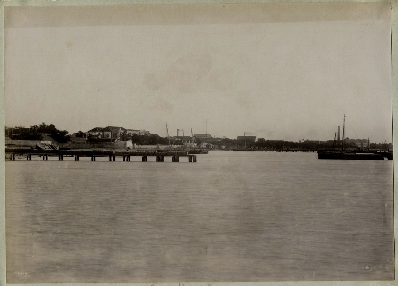 Tuticorin Port